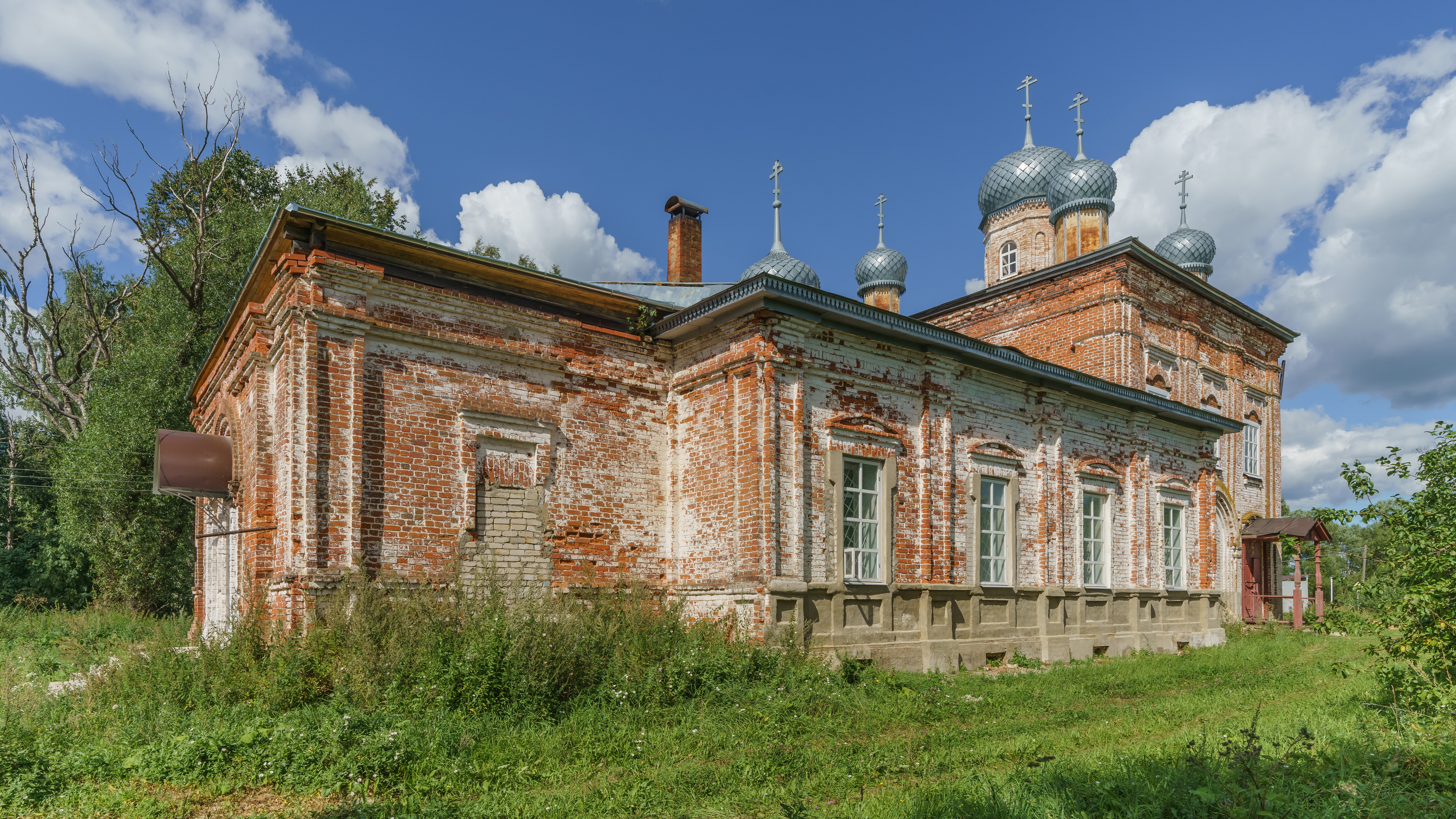 Epiphany Church in Ryabovo, Ivanovo Oblast, Russia.